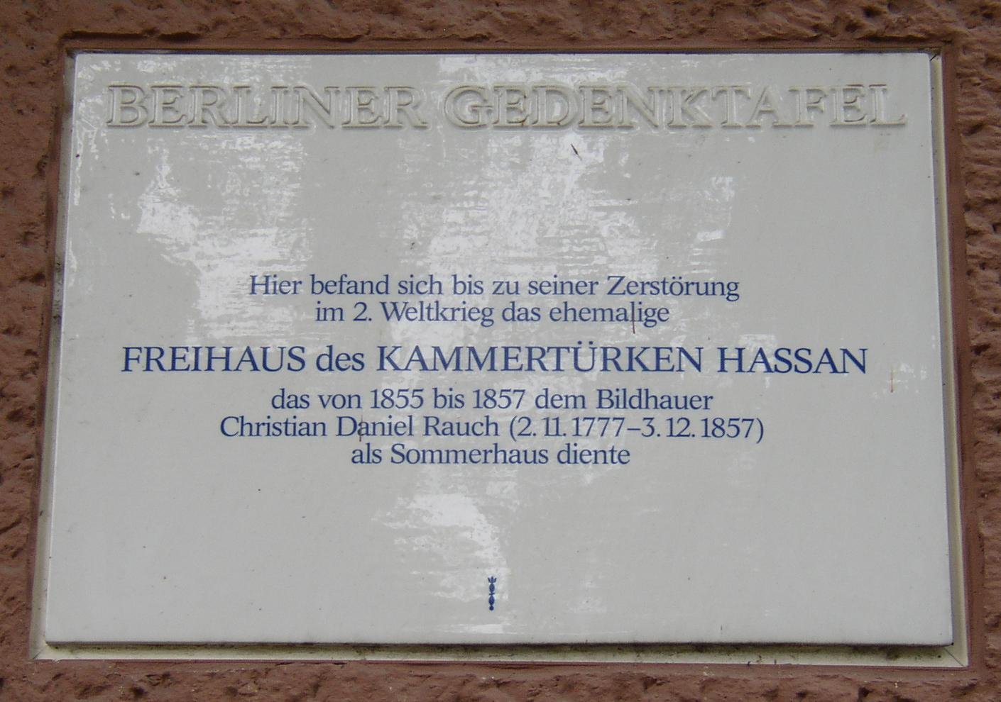 Berlin memorial plaque for Christian Daniel Rauch in Berlin-Charlottenburg, Germany